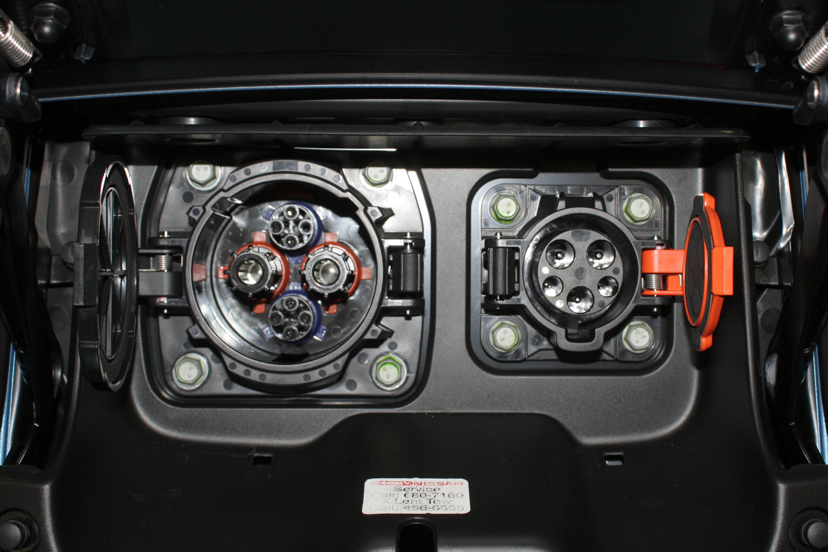 Close-up photograph of the charging sockets on a 2012 Nissan Leaf. The socket on the left is a CHAdeMO connector for fast DC charging, and the socket on the right is an SAE J1772 connector for normal AC charging. Photograph taken at the 2012 First Hawaiian International Auto Show in Honolulu, Hawaii, USA.